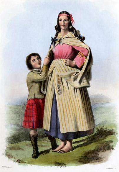 "Matheson". A plate illustrated by R. R. McIan, from James Logan's The Clans of the Scottish Highlands, published in 1845.